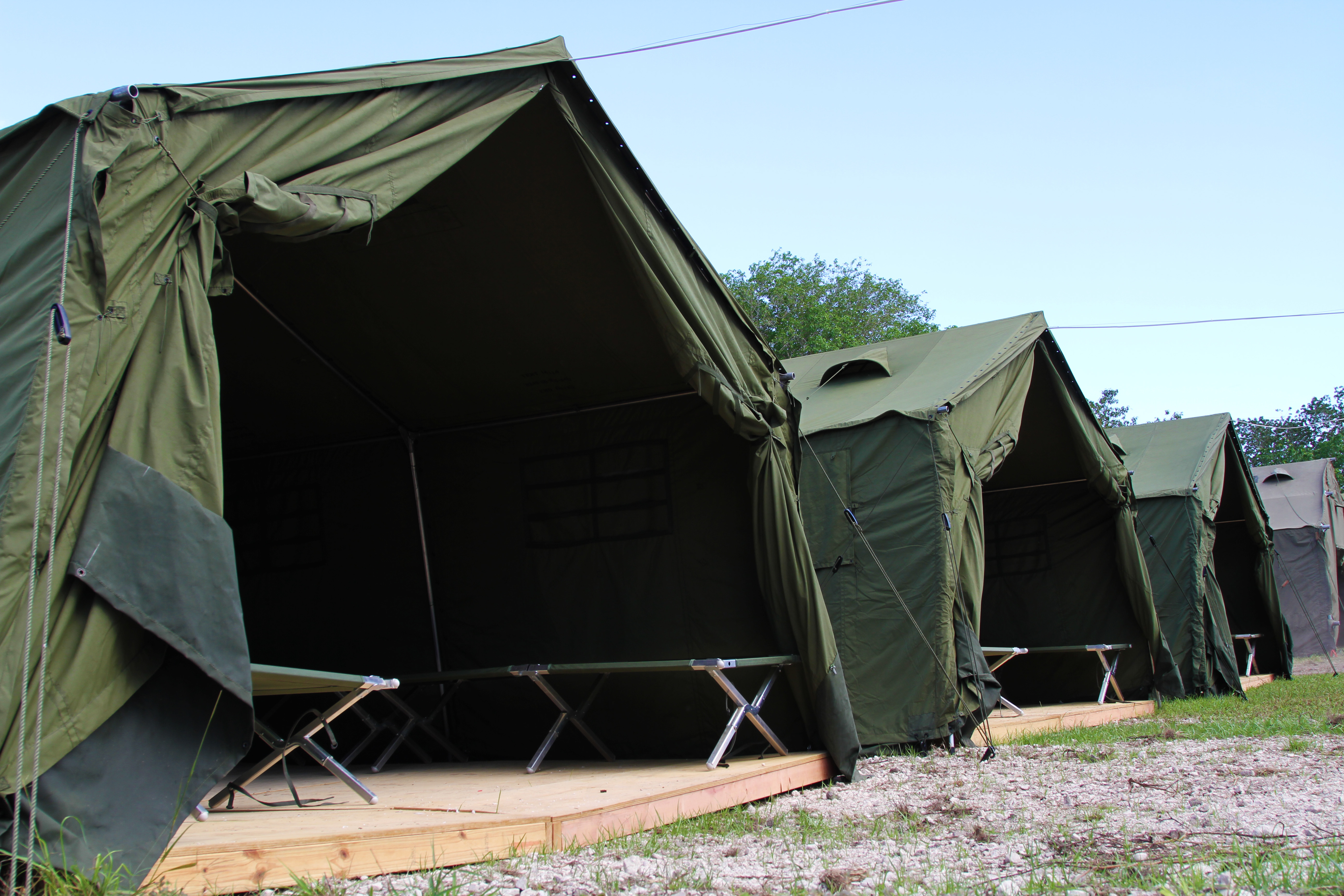 Accommodation in the Nauru offshore processing facility.